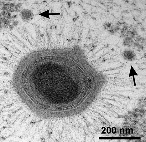 Mimivirus, Acanthamoeba polyphaga mimivirus, with two satellite Sputnik virophages (arrows) Thin-section electron microscopy courtesy of J.Y. Bou Khalil and B. La Scola, IHU Mediterranée Infection, France.